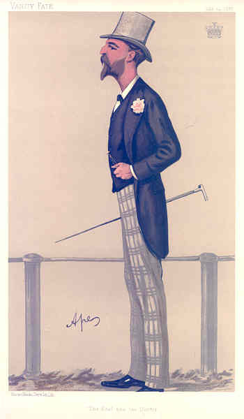 Caricature of George Herbert, 13th Earl of Pembroke, 10th Earl of Montgomery. Caption read "The Earl and the Doctor".